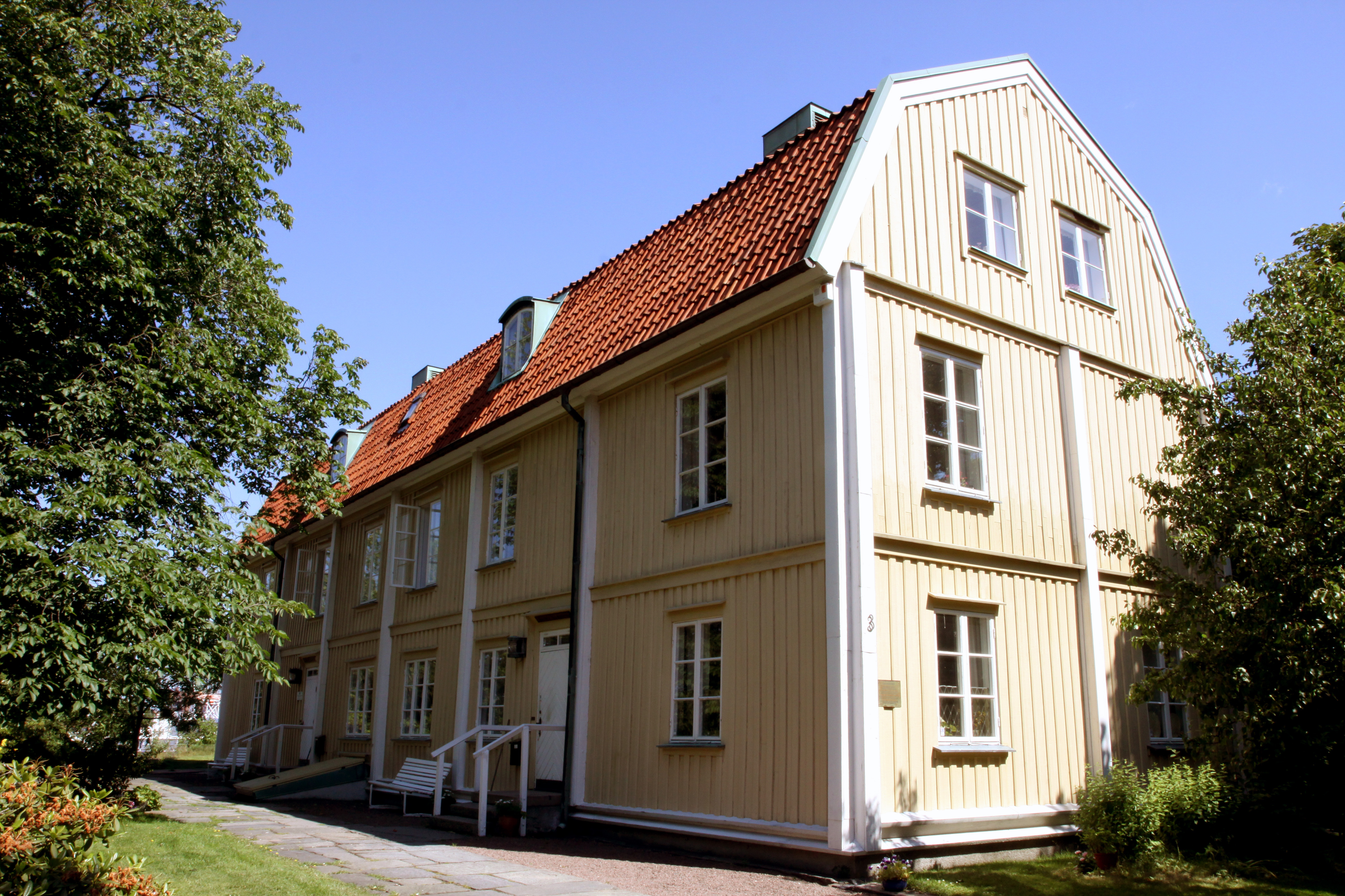 Taubehuset in Gothenburg, Sweden